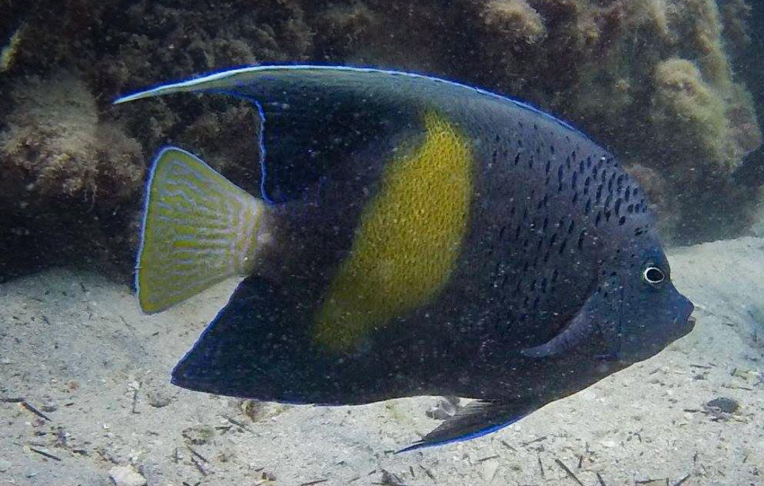 Yellowbar Angelfish (Pomacanthus maculosus) from Dubai-Jumeirah Sea, Arabian Gulf, UAE